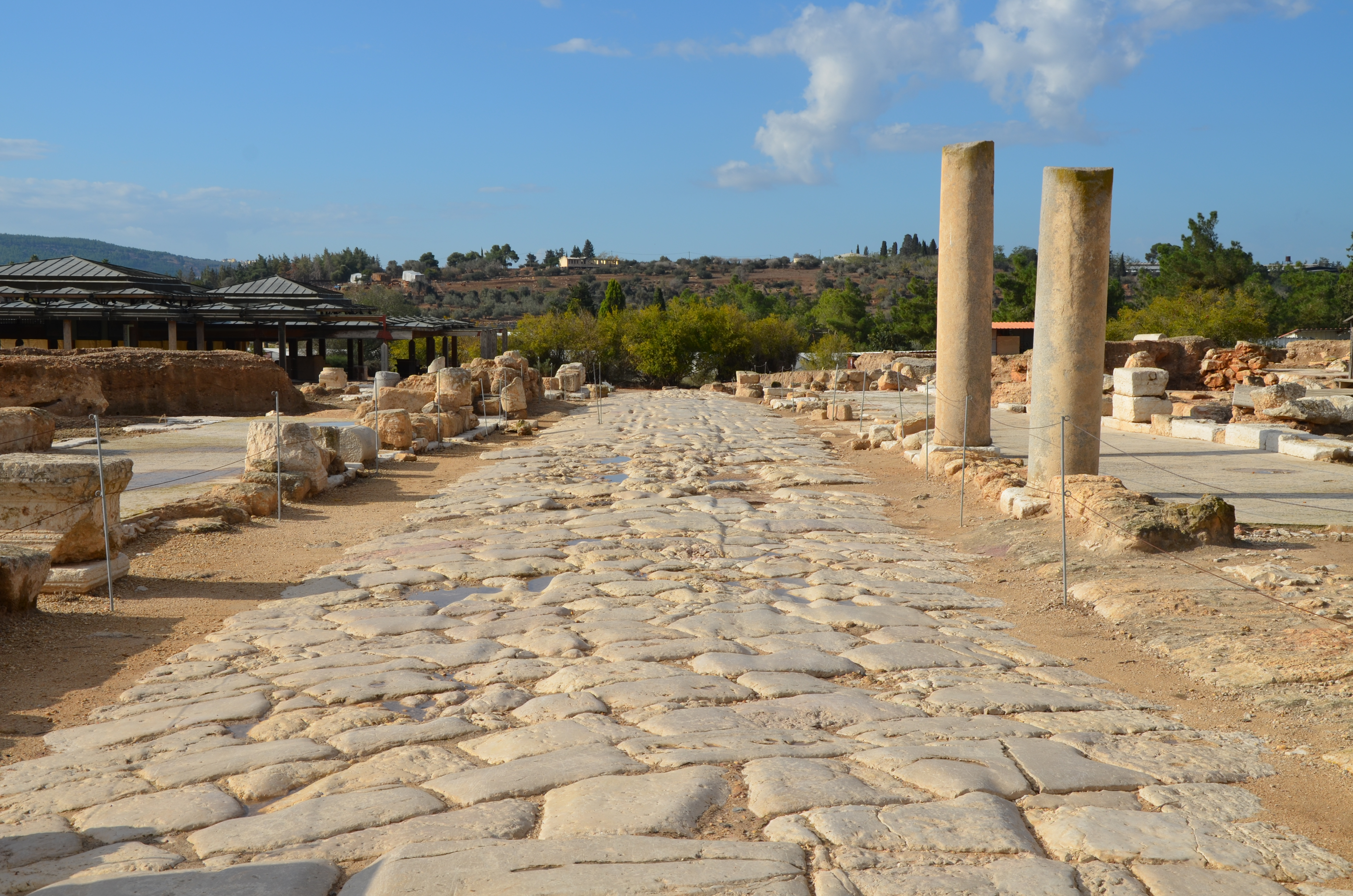 Sepphoris (Diocaesarea), Israel